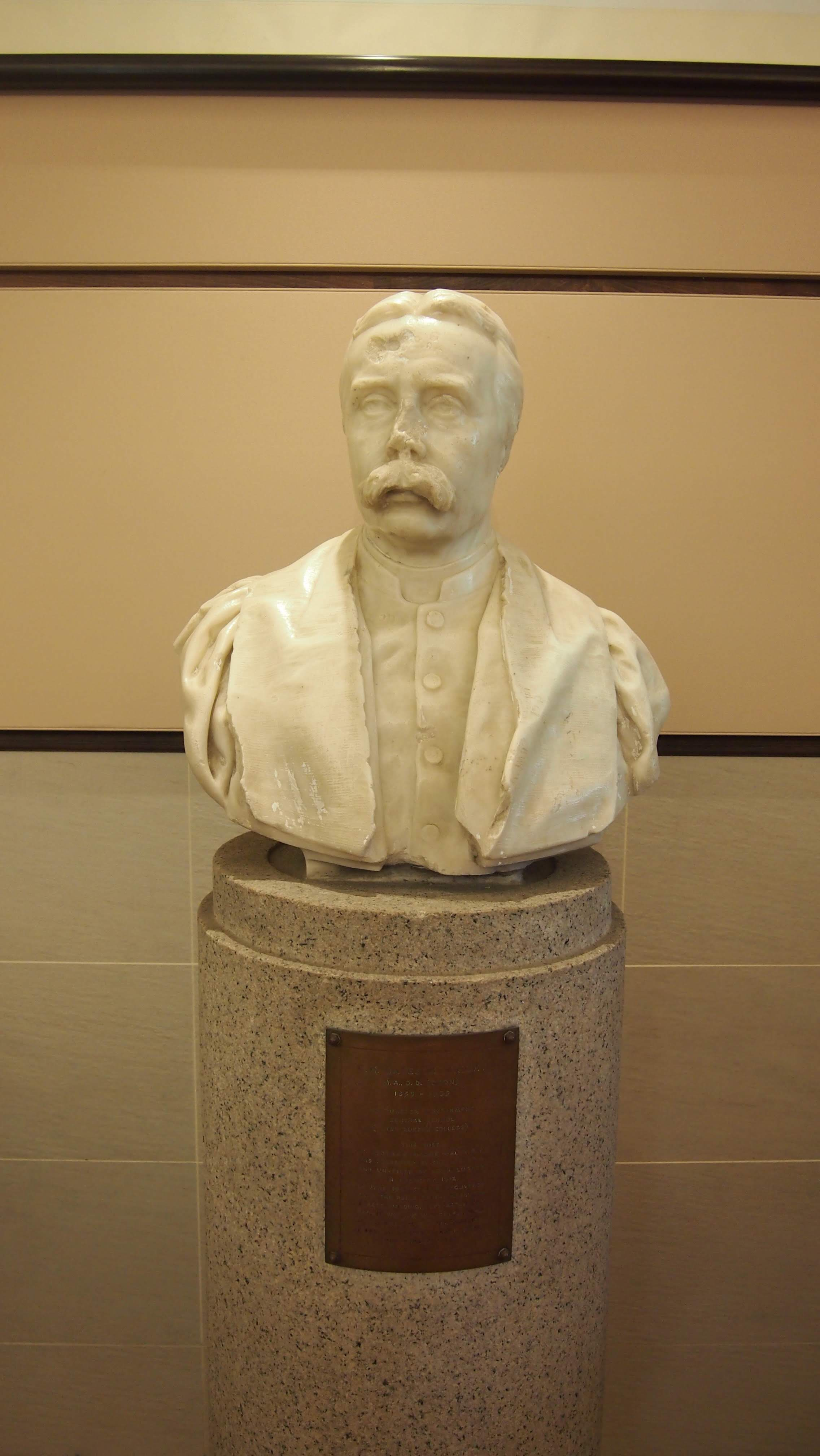 Bust of George Bateson Wright, Headmaster of Queen’s College, Hong Kong, which is built in 1912